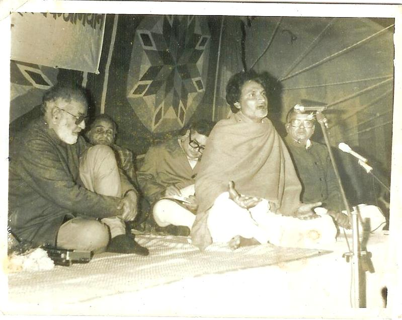 Dinesh Bhramar reciting his poetry at a Kavi Sammelan at Bagaha. Sachchidananda Hirananda Vatsyayana 'Agyeya' could be seen sitting left and Shankar Dayal Singh in the middle. Photograph taken in 1986.